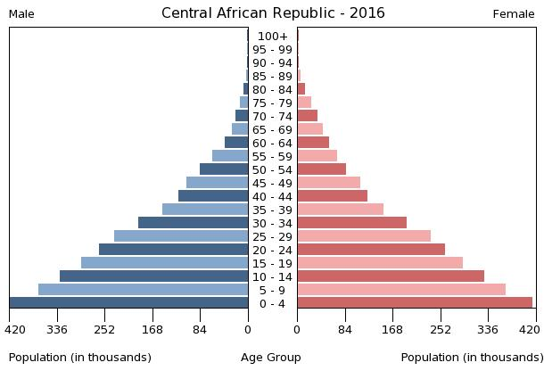 The population pyramid of the Central African Republic illustrates the age and sex structure of population and may provide insights about political and social stability, as well as economic development. The population is distributed along the horizontal axis, with males shown on the left and females on the right. The male and female populations are broken down into 5-year age groups represented as horizontal bars along the vertical axis, with the youngest age groups at the bottom and the oldest at the top. The shape of the population pyramid gradually evolves over time based on fertility, mortality, and international migration trends.